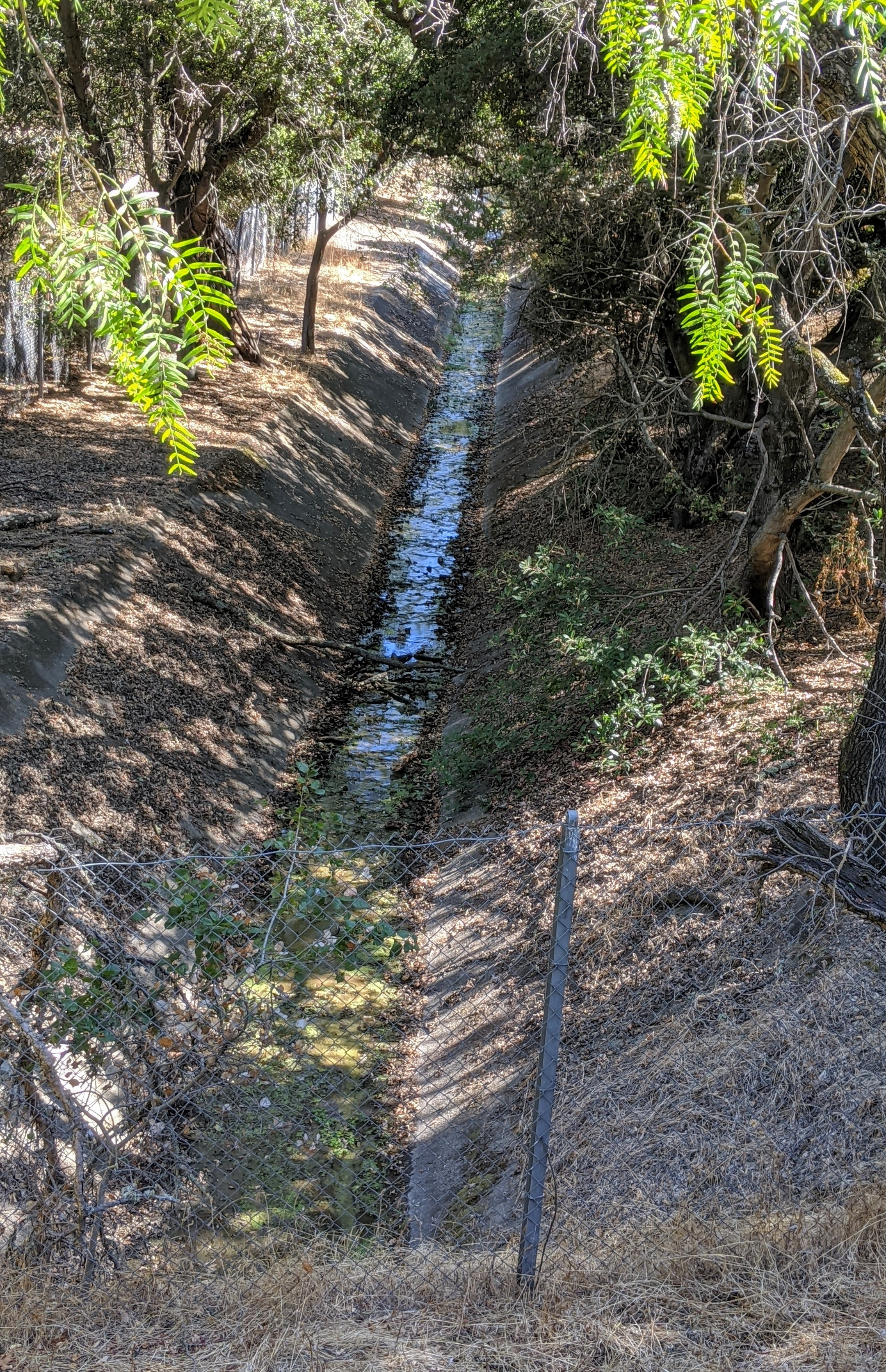 Deer Creek in its trapezoidal concrete steambed along I-280 at Arastradero Road, Los Altos Hills, California